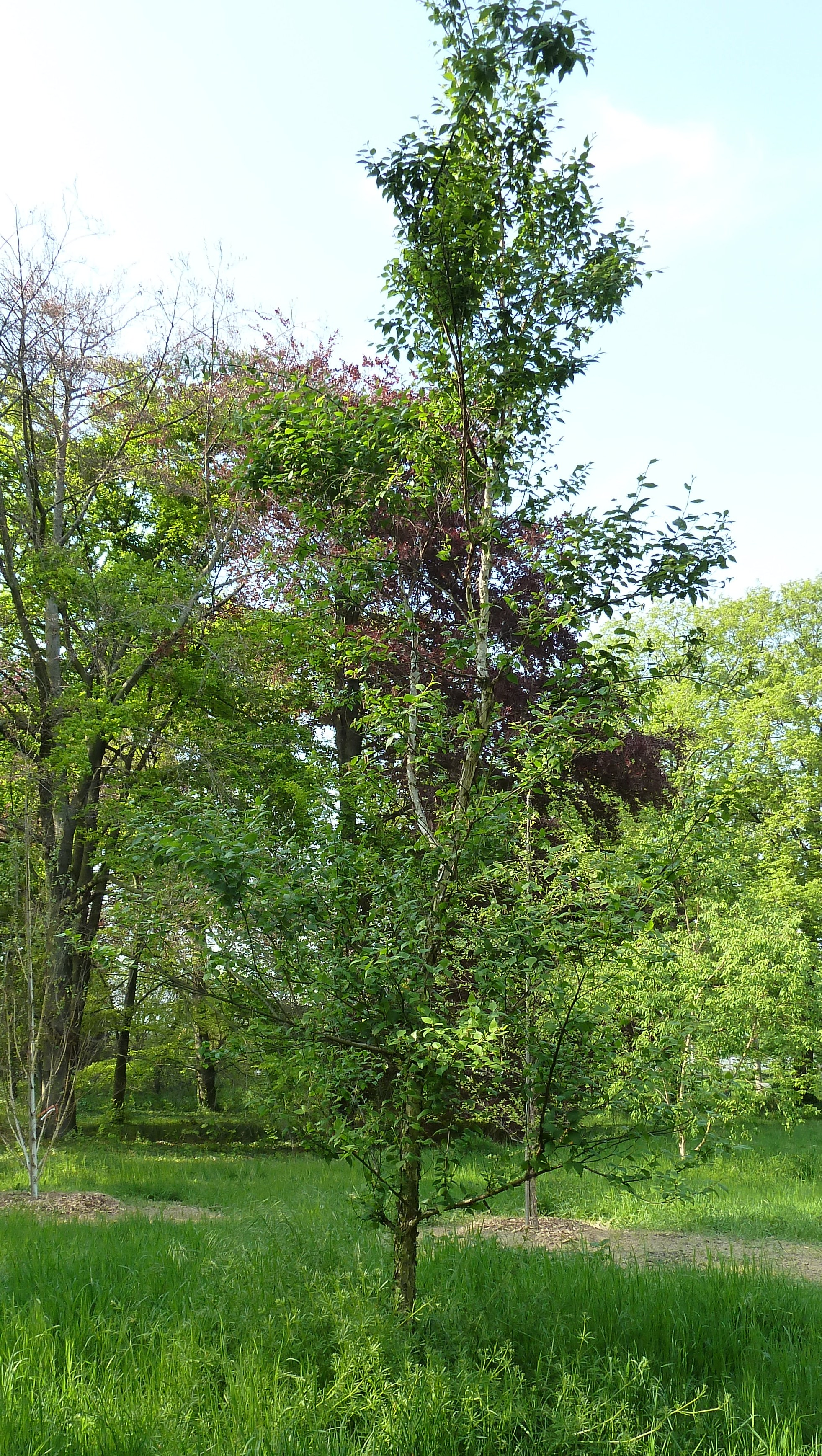 Betula davurica in Arboretum de l'école du Breuil (Paris, France)